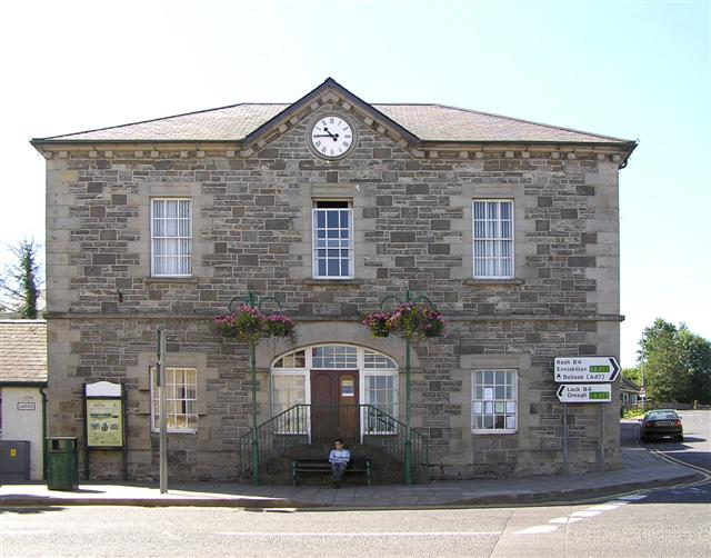 Ederney Town Hall. One of the very few stone built buildings in the village.